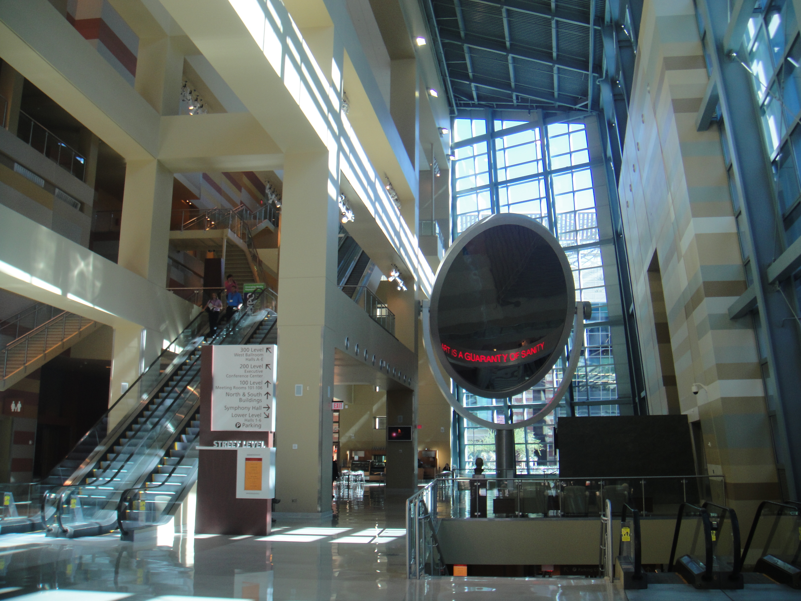 Inside the lobby of the west wing of the Phoenix Convention Center in Downtown Phoenix, Arizona